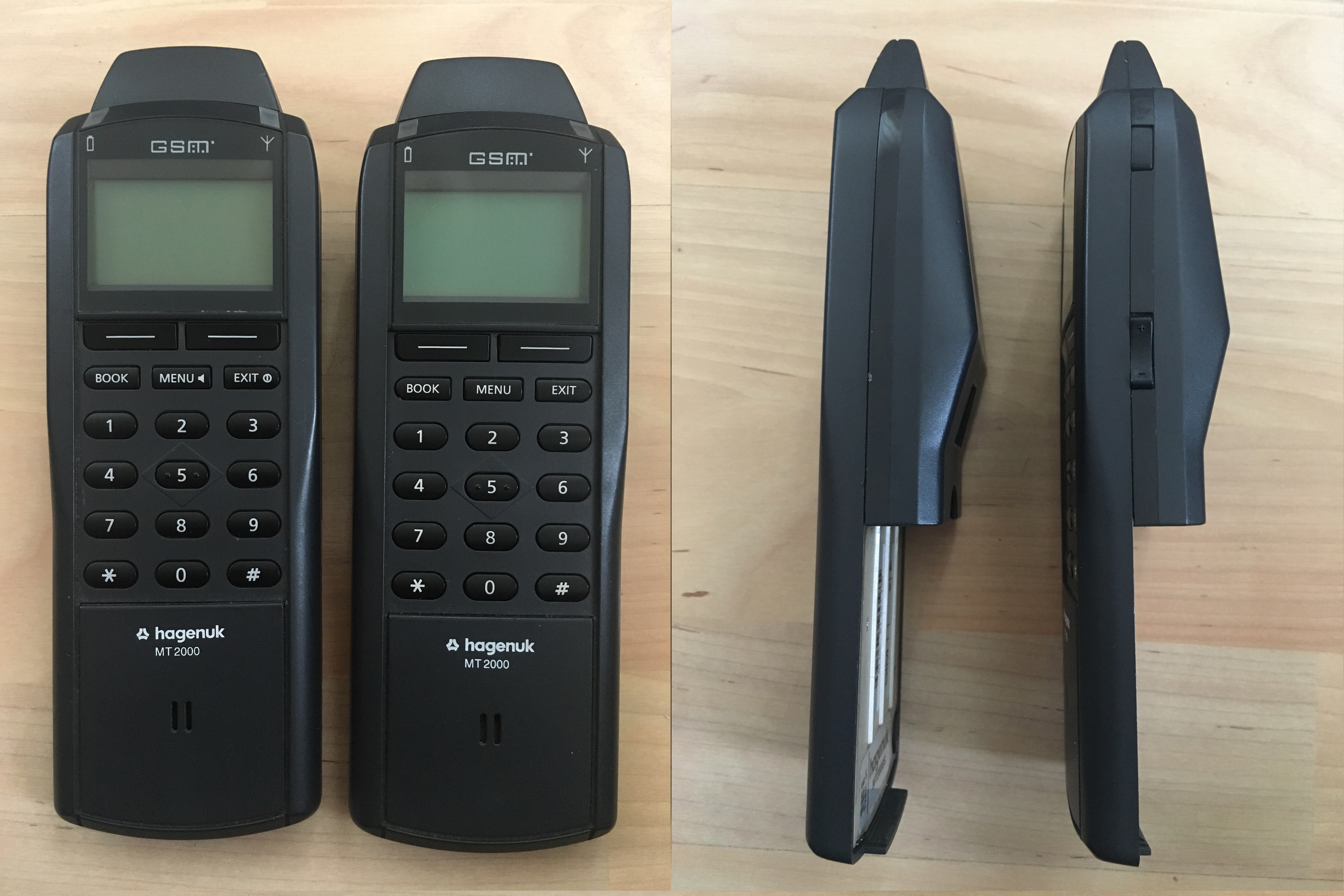 Hagenuk early GSM phone, MT-2000, two variants with & w/o HW buttons for volume and power on/off